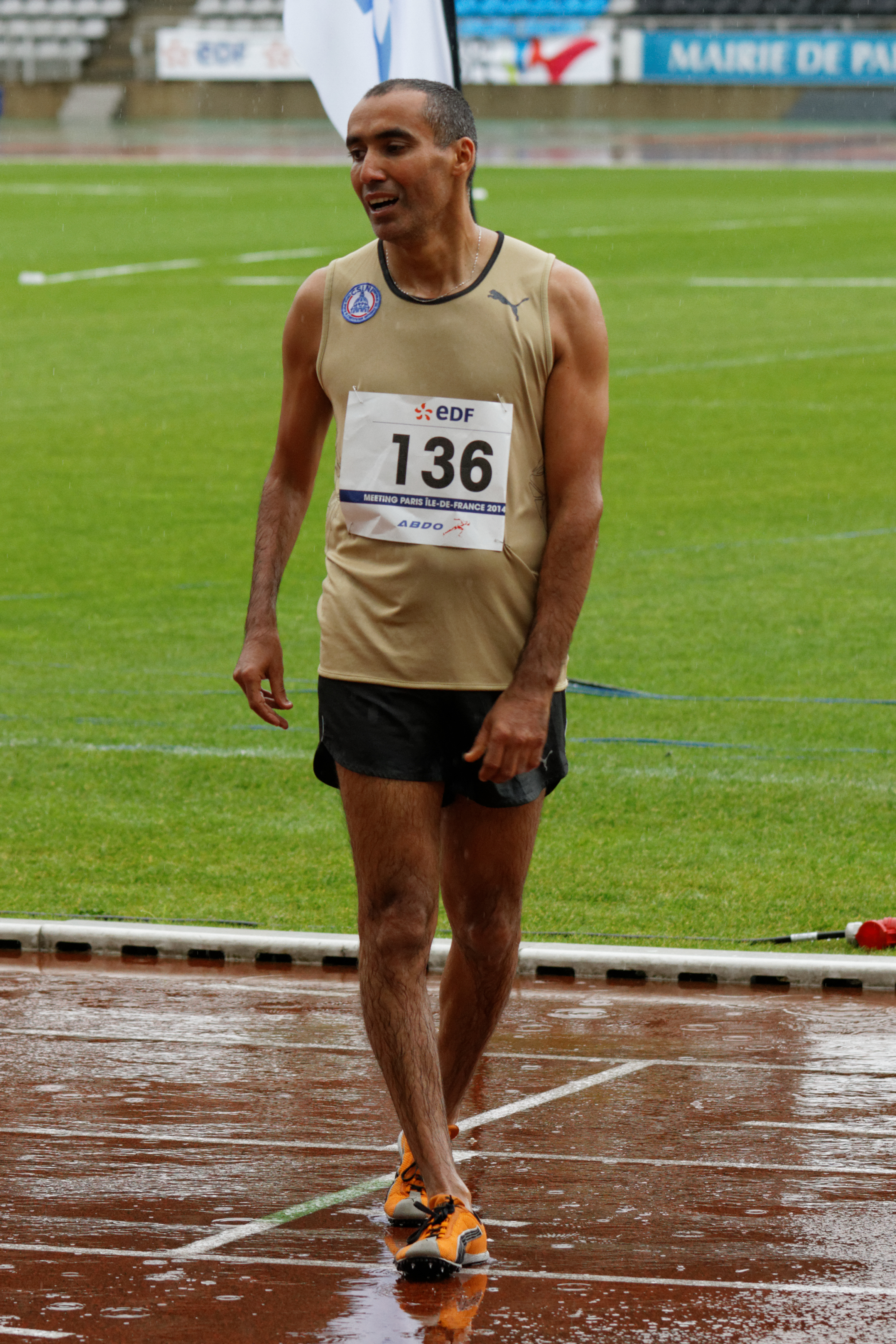 Paris Athletics Paralympic Meeting, June 4th, 2014, Charlety stadium.